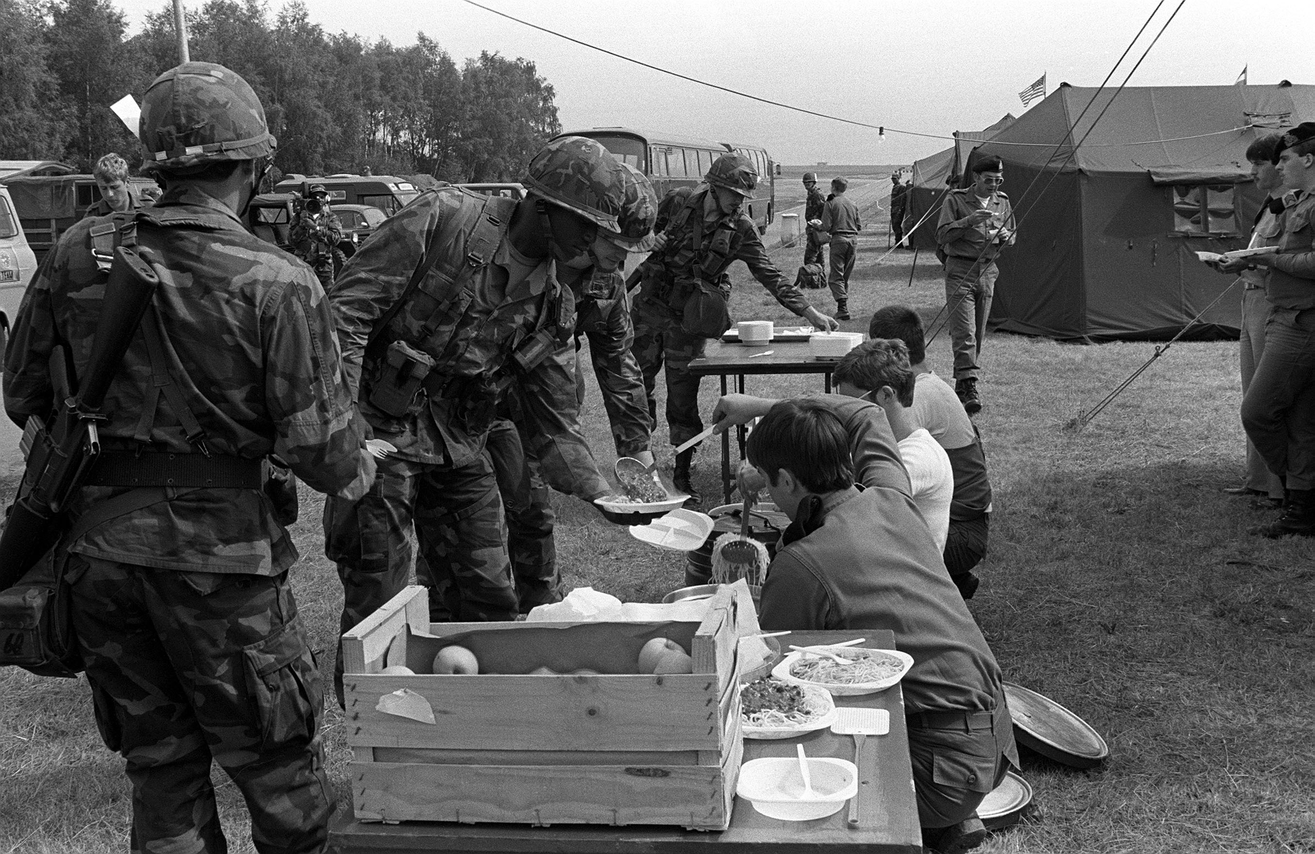 Members of the 1st Battalion, 28th Infantry Division, receive food served by Luxembourg Army Reservists. The men have just arrived aboard a C-141 Starlifter aircraft and are en route to Karlsruhe, West Germany, to participate in REFORGER '82.